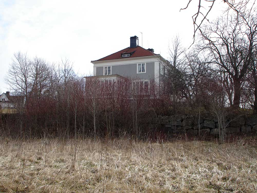 The mansion of Sandvik's sawmill in Holmsund, Sweden, now a private home